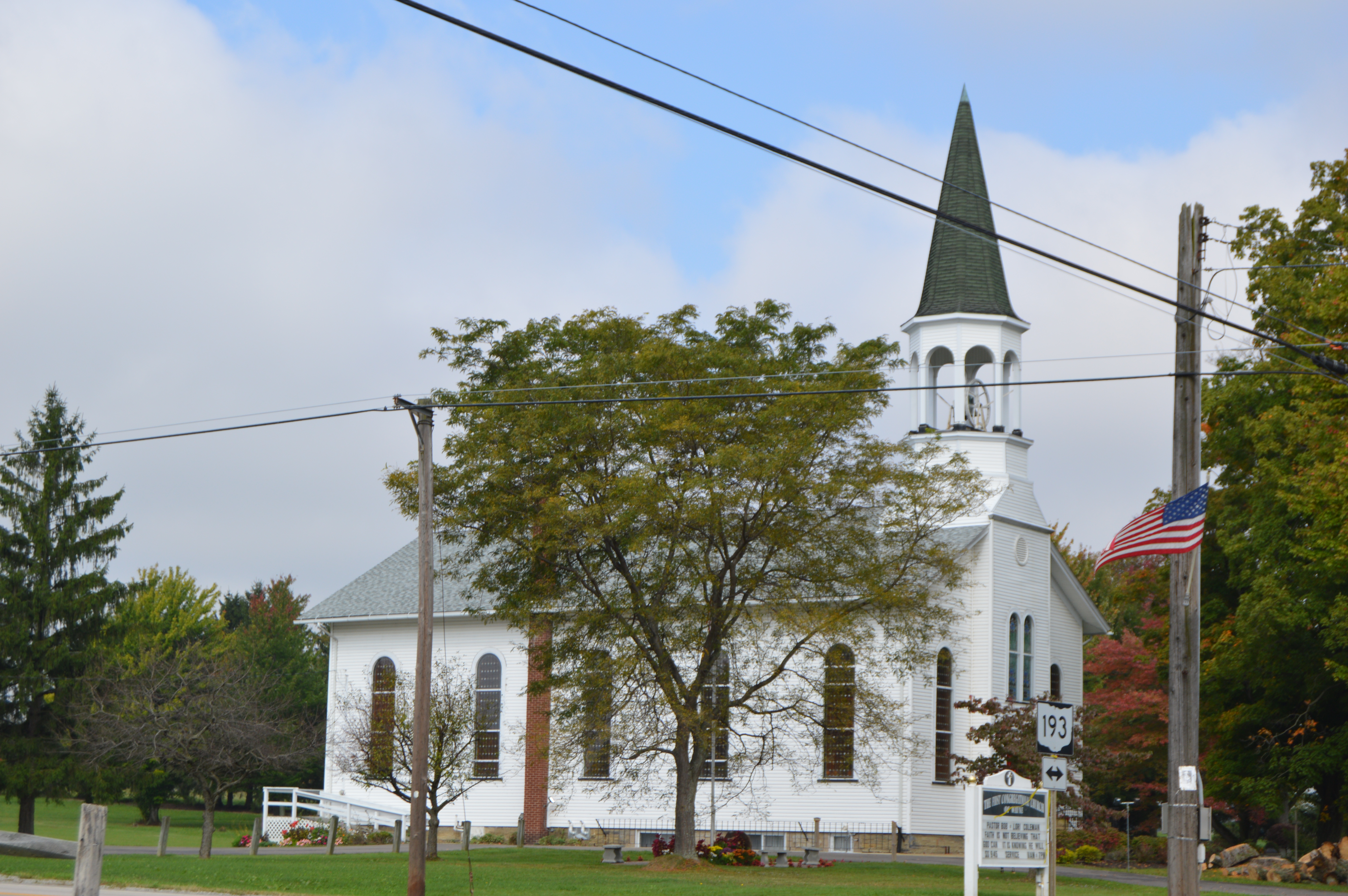 Southern side and front of the First Congregational Church of Wayne, located on the northwestern corner of the junction of U.S. Route 322 and State Route 193 at Wayne Center, Ohio, United States. It was built in 1875.